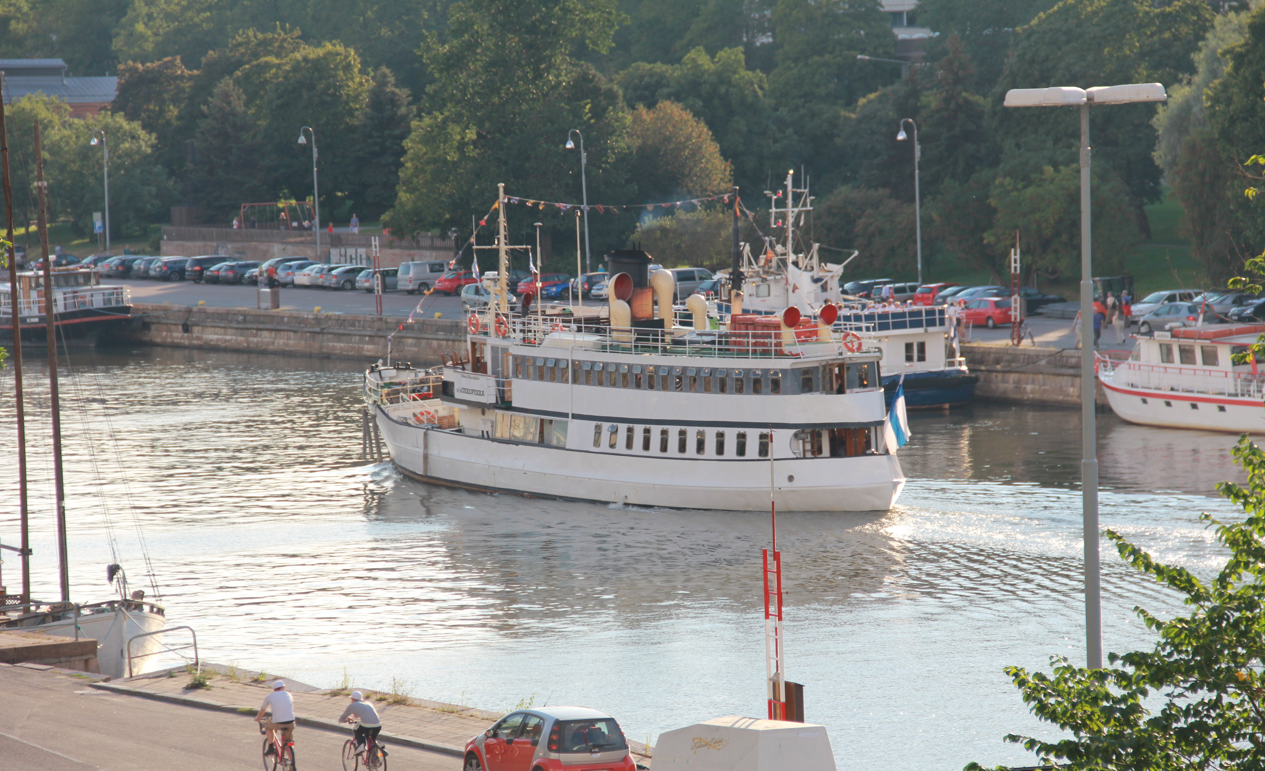 S/S Ukkopekka leaving in Aurajoki River, Turku, Finland.